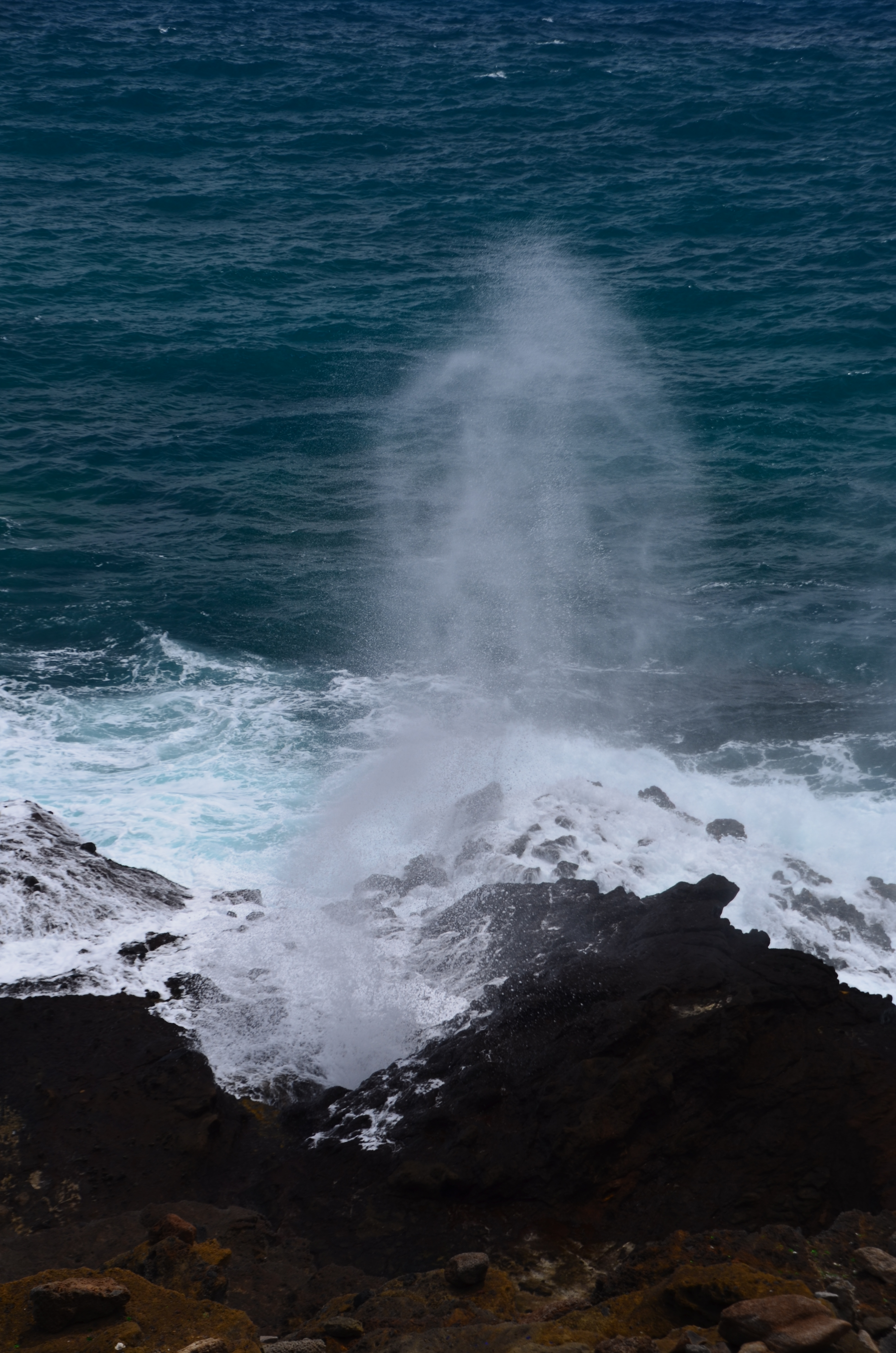 Halona Blowhole (a0002860)